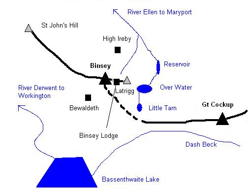 Sketch map of Binsey, English Lake District